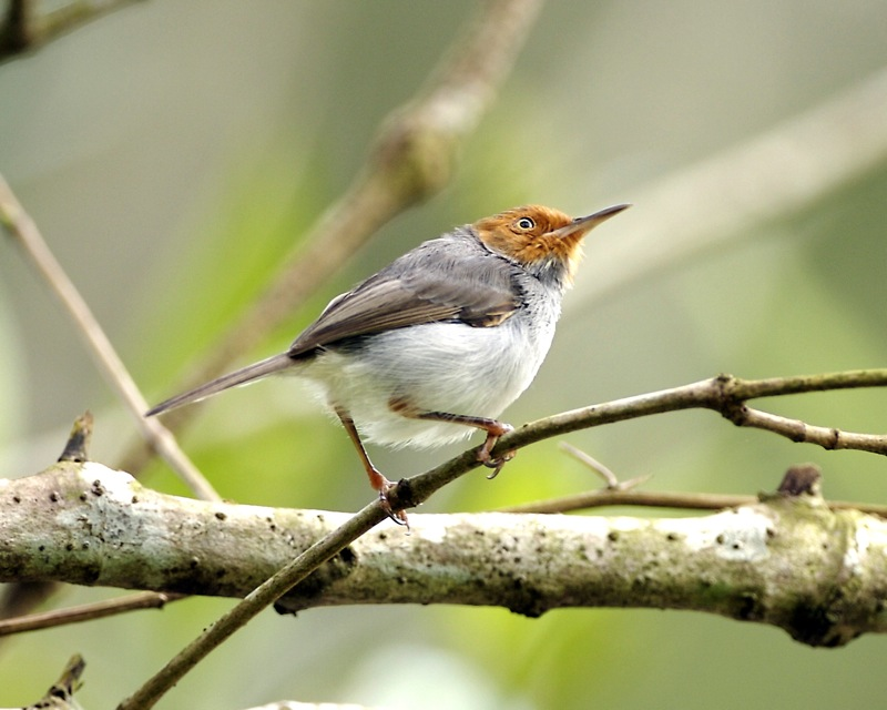 Ashy Tailorbird - female Orthotomus ruficeps cineraceus 17th. September 2006 Khatib Bongsu, Singapore Male here: Distribution